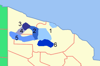 Subgroups in Sepik languages: Middle Sepik languages Tama languages Ram languages Yellow River languages Upper Sepik languages Hill Sepik languages see WALS map of Sepik languages